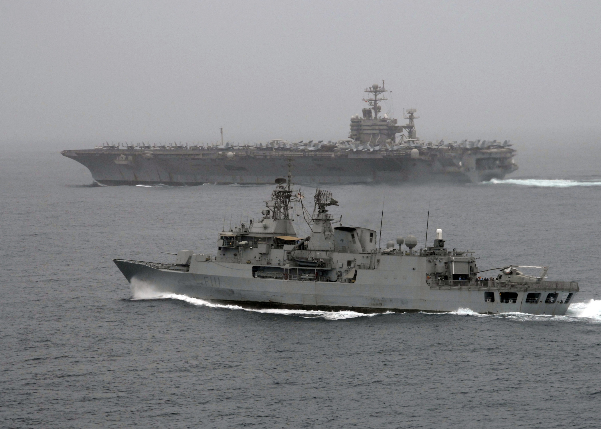 NORTH ARABIAN SEA (July 30, 2008) The Royal New Zealand Navy Frigate HMNZS Te Mana (F111) sails alongside the Nimitz-class aircraft carrier USS Abraham Lincoln (CVN 72) in the north Arabian Sea. Lincoln is deployed to the U.S. 5th Fleet area of responsibility to support Operations Iraqi Freedom and Enduring Freedom as well as maritime security operations. U.S. Navy photo by Mass Communication Specialist 2nd Class N. Brett Morton (Released)